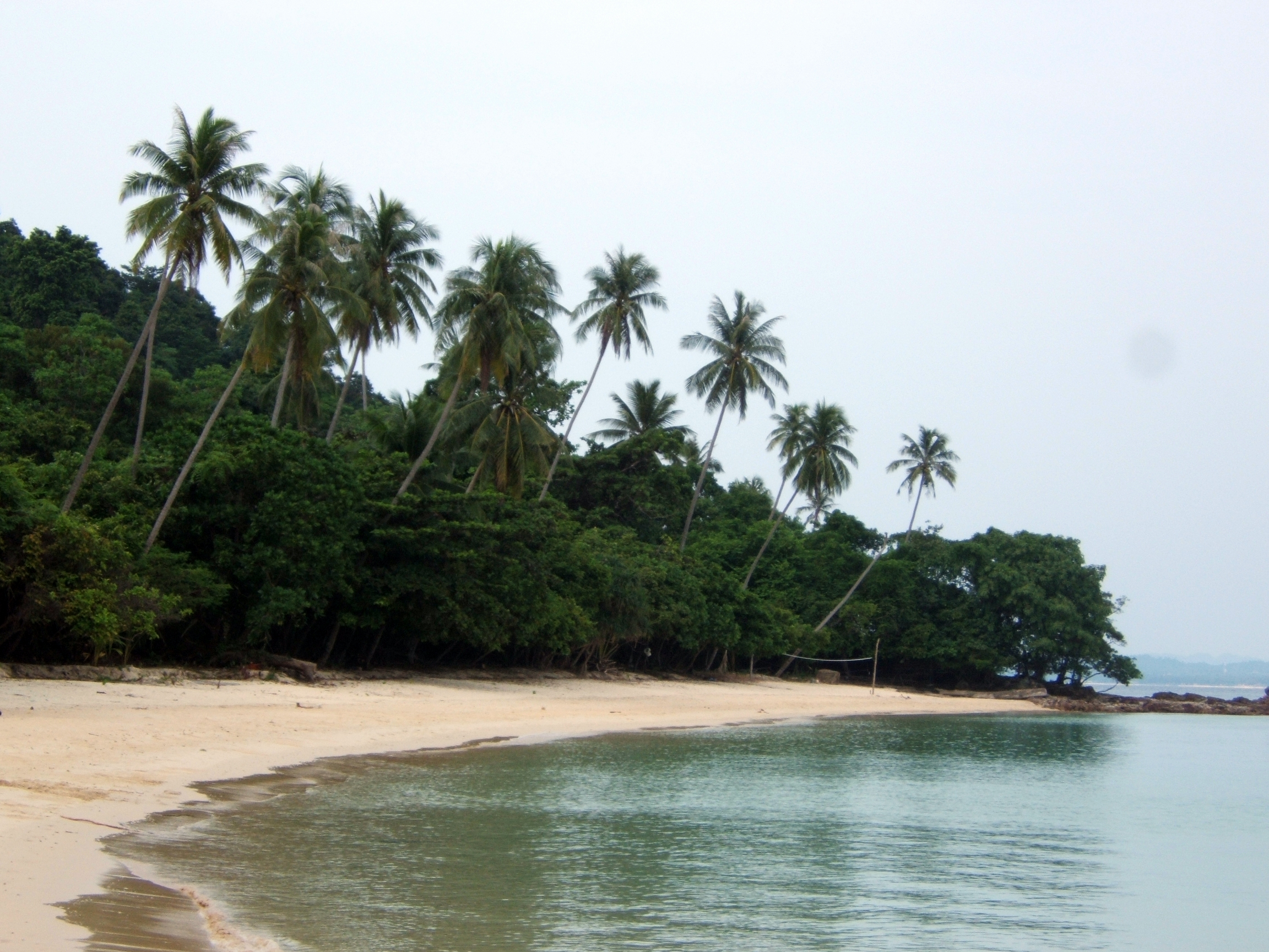 Used: In a blog post about Kapas